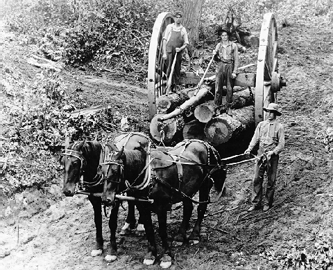 Big Wheels hauling logs, circa 1900.